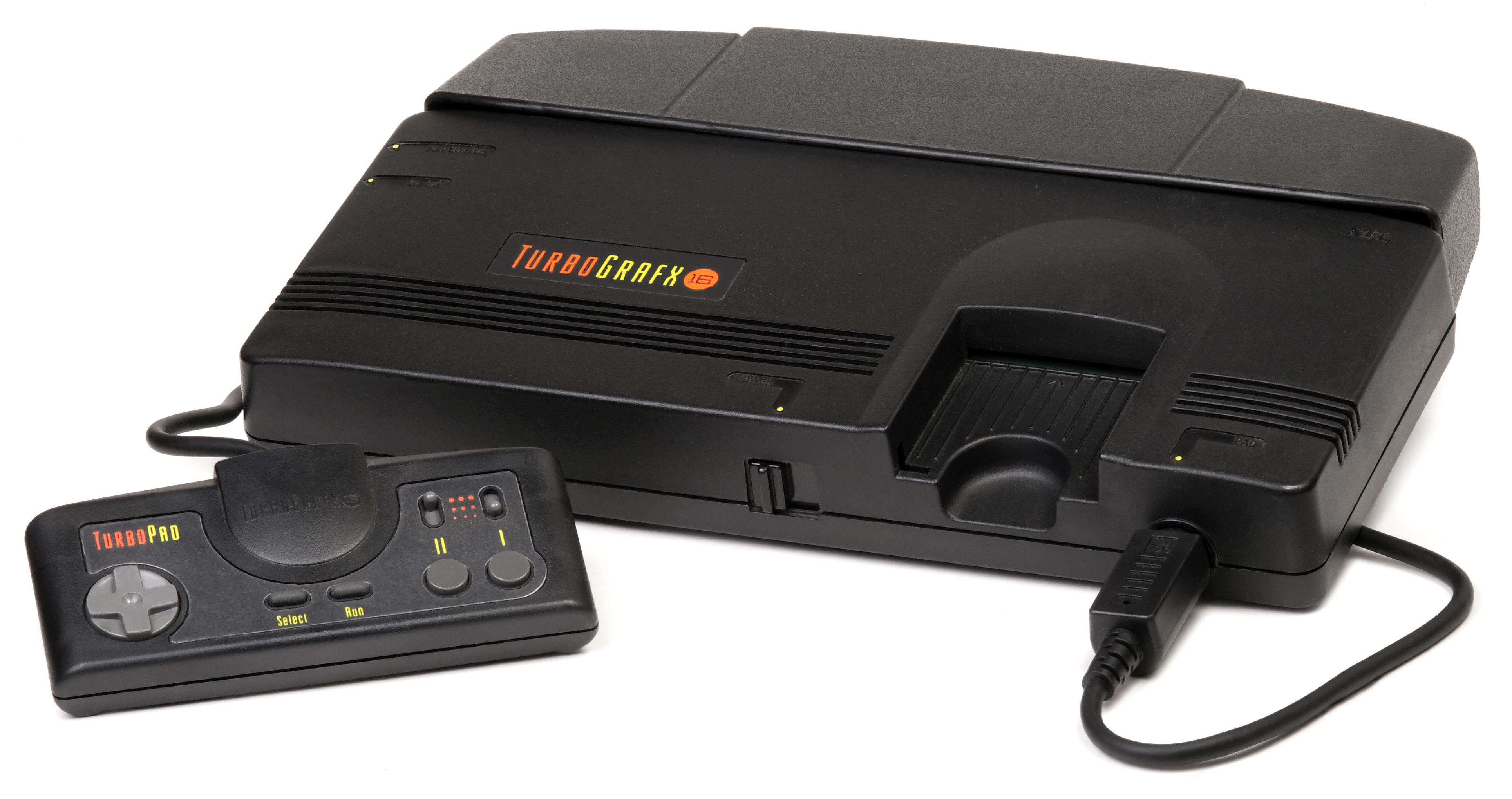 An NEC TurboGrafx-16 video game console, shown with controller.